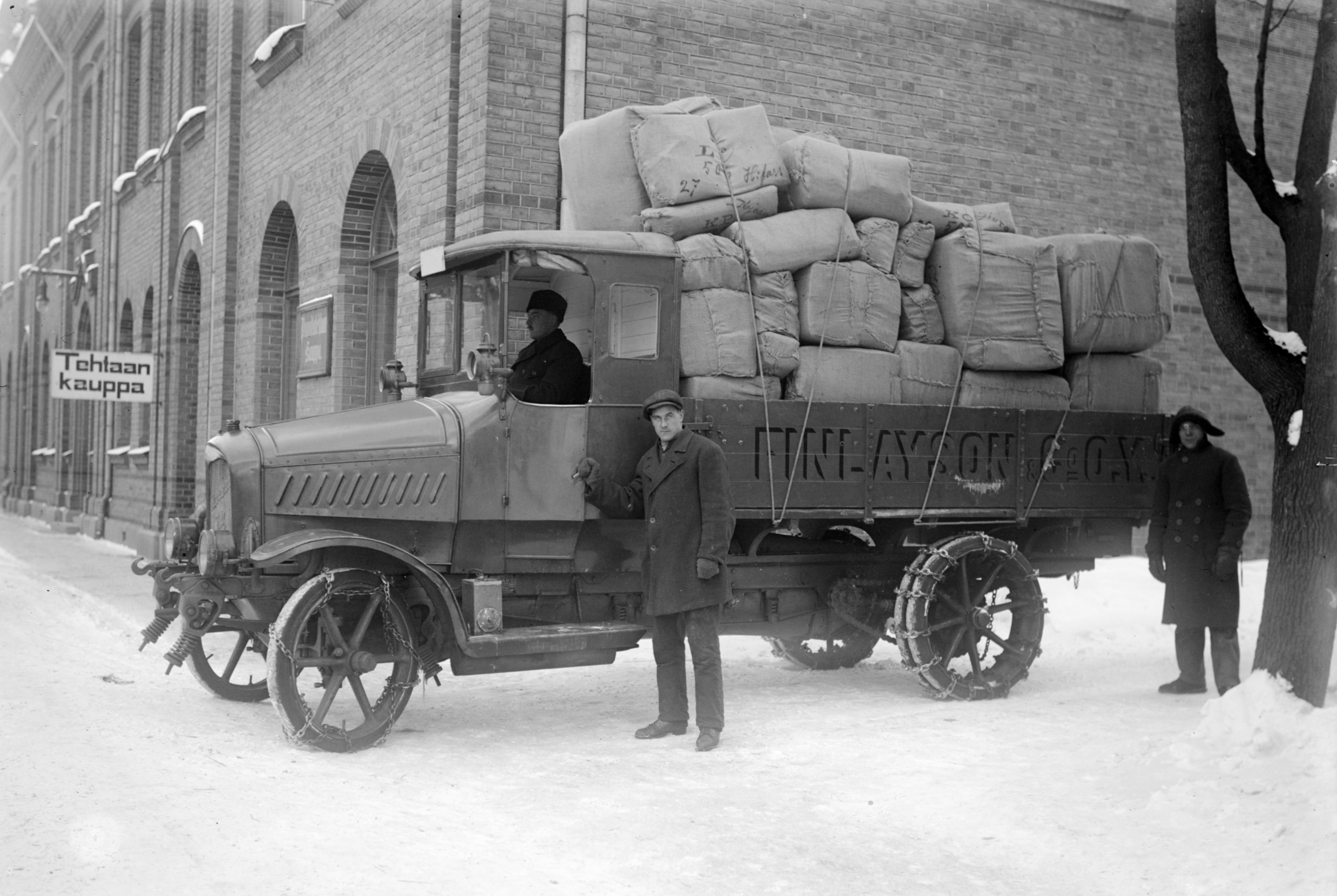 Finlaysons Mannesmann Mulag -lorry in Tampere, Finland.